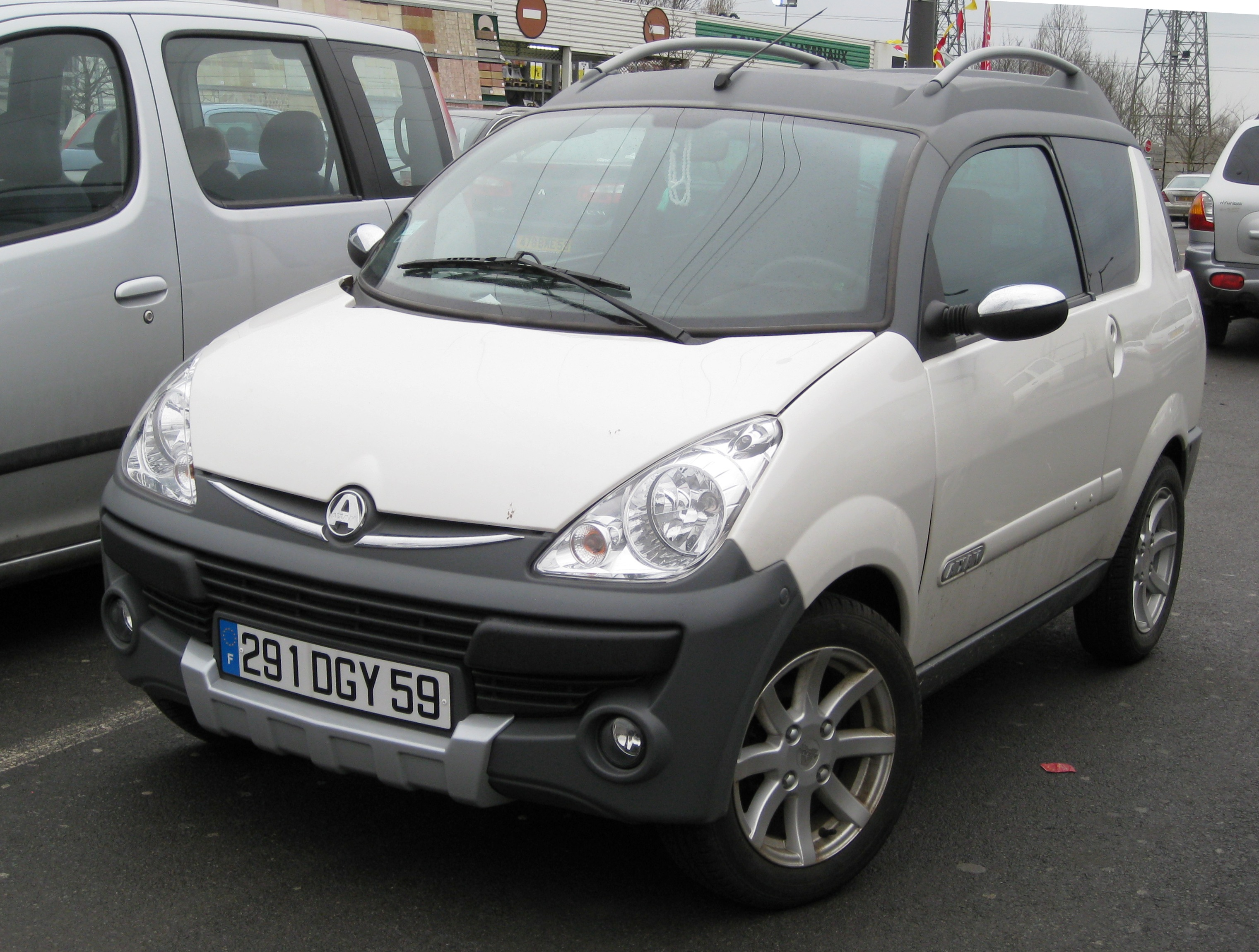 Axiam Crossline outside Roy Merlin at Dunkerque